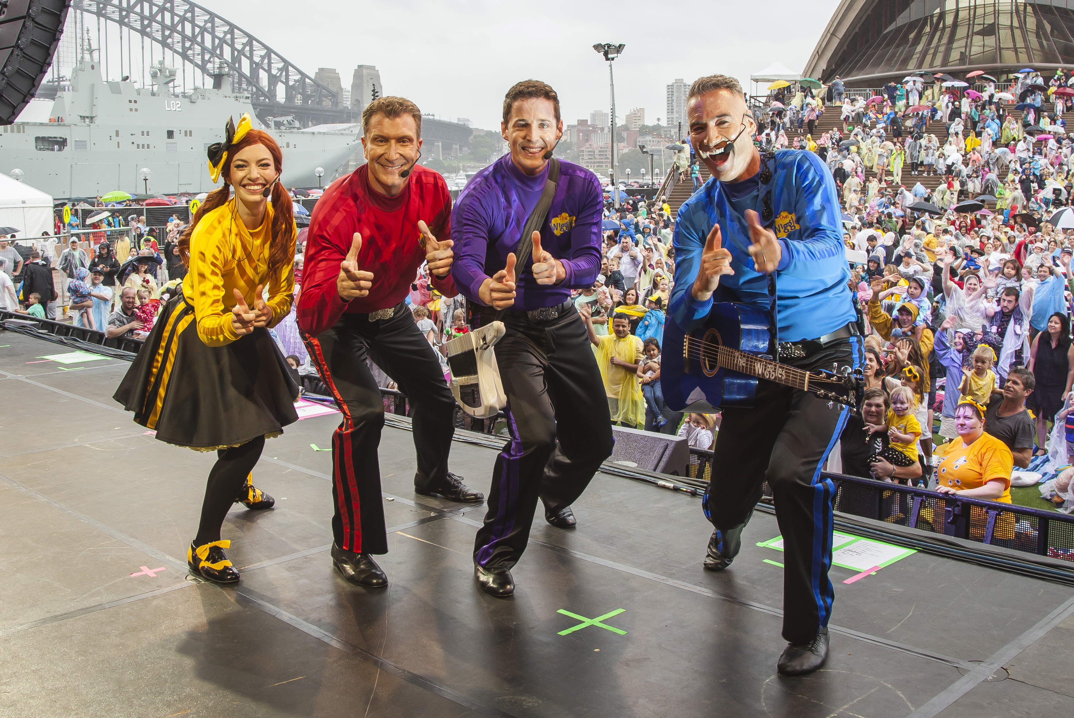 The Wiggles performing in front of the Sydney Opera House and Sydney Harbour Bridge, 2018